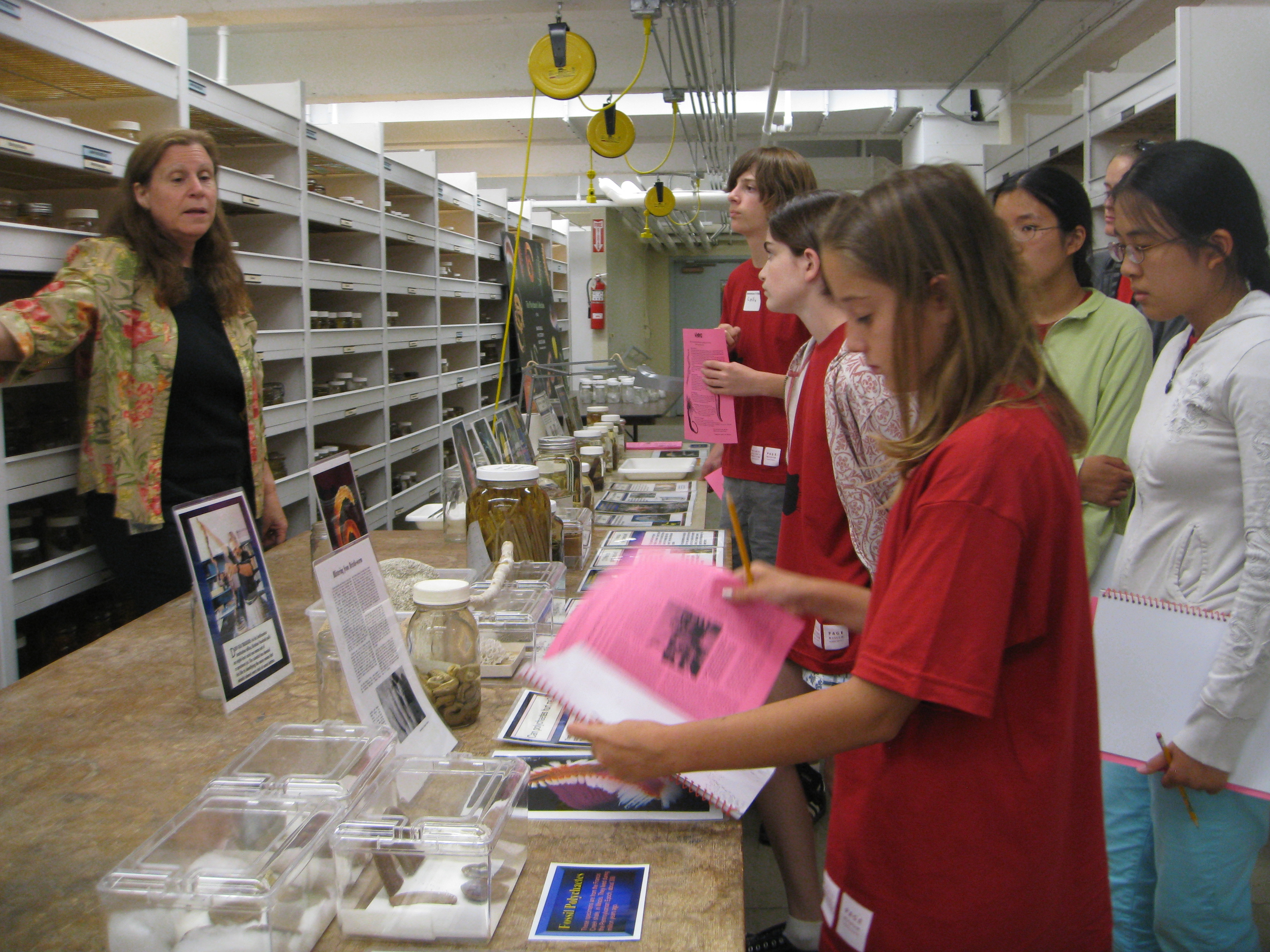 Summer Camp 2010 (7th and 8th Graders)